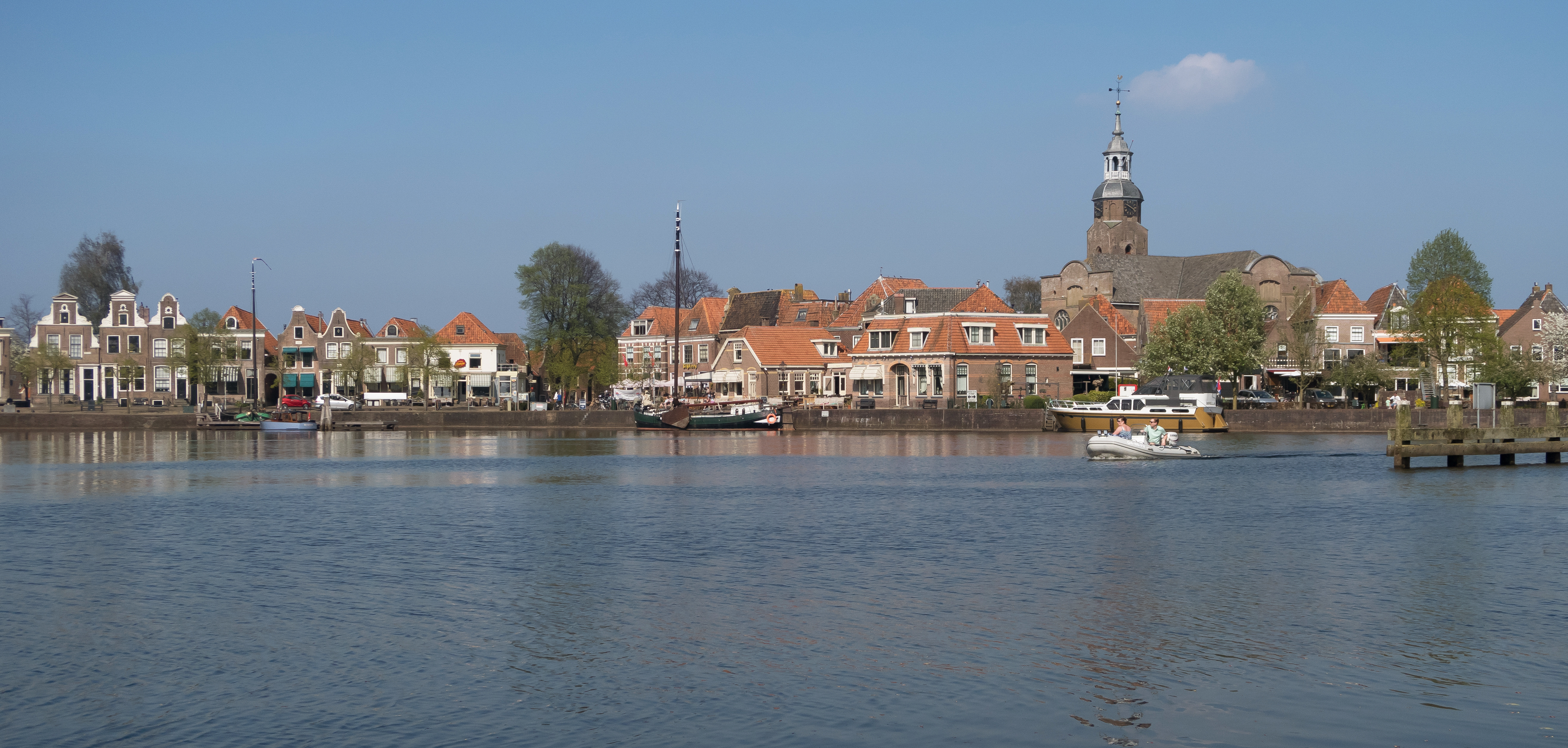 Blokzijl, port (de Havenkolk) from the Zuiderkade with a view to the Bierkade and the reformed church